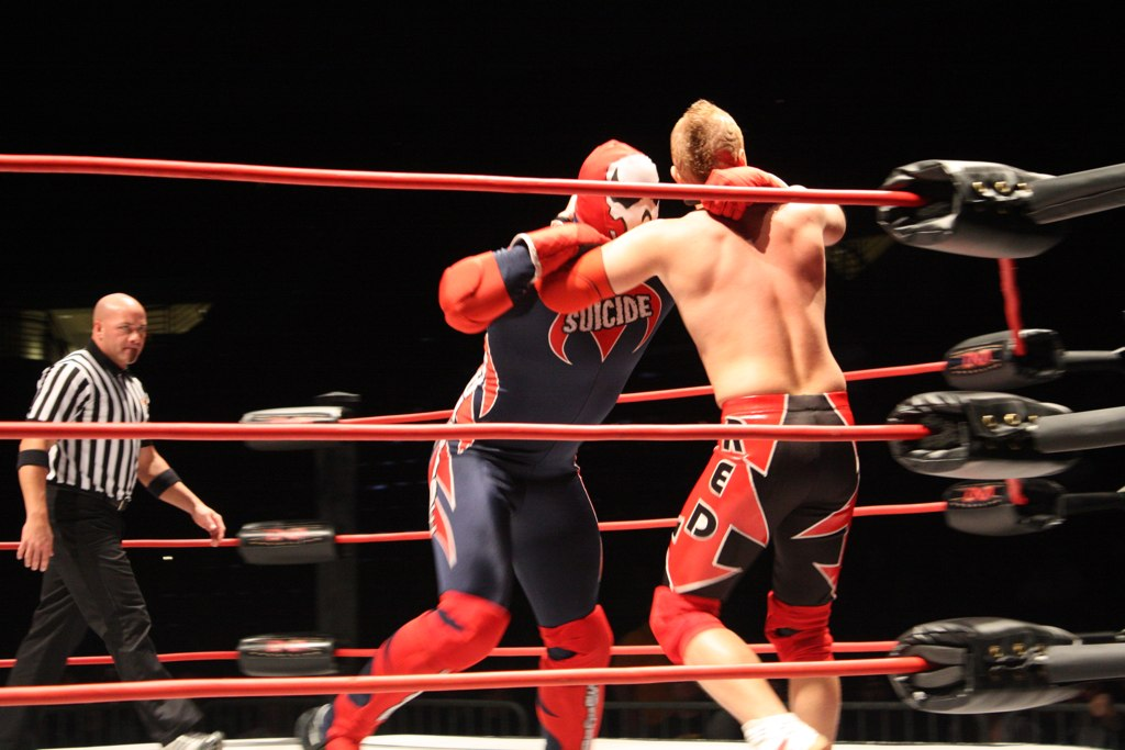 Wrestler Suicide & Amazing red